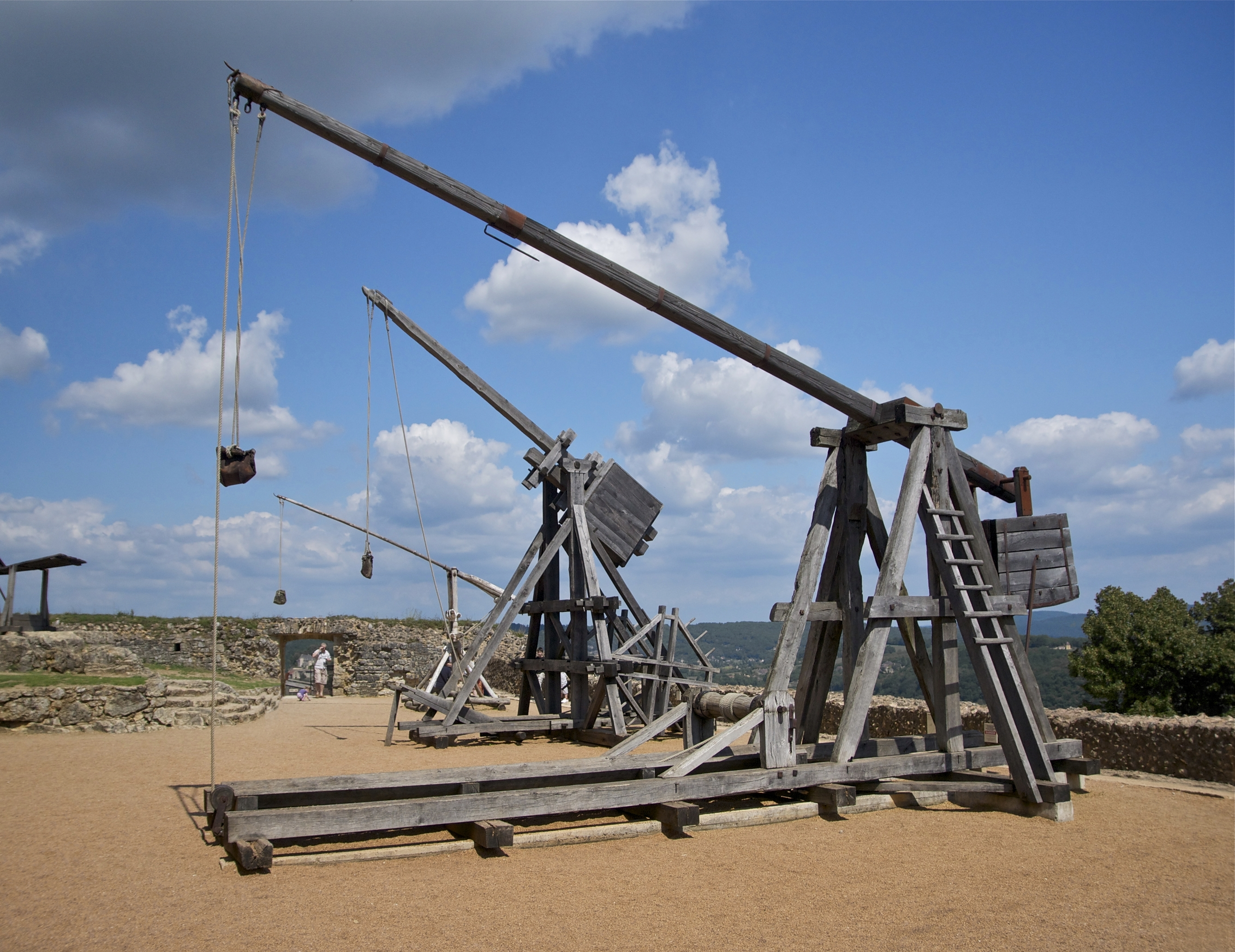 Reconstruction of three trebuchets in Château de Castelnaud, Dordogne, France.